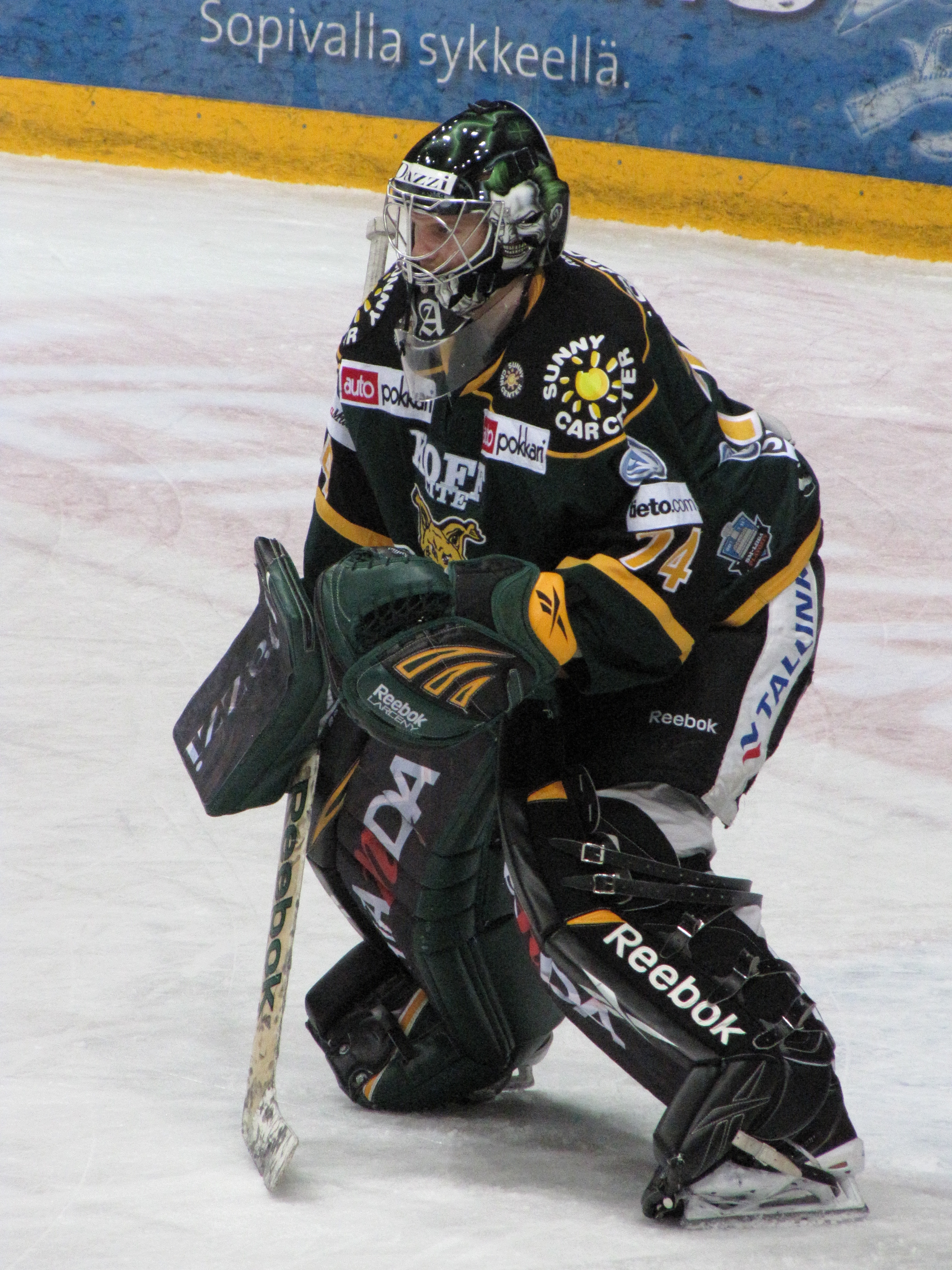 Finnish ice hockey goaltender Sami Aittokallio of Tampere Ilves warming up before an SM-liiga quarterfinals game against Jyväskylä JYP in Tampere, Finland, March 2011.